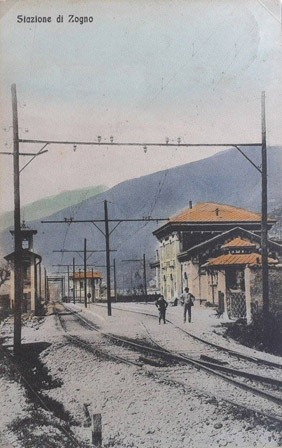 Zogno railway station 1